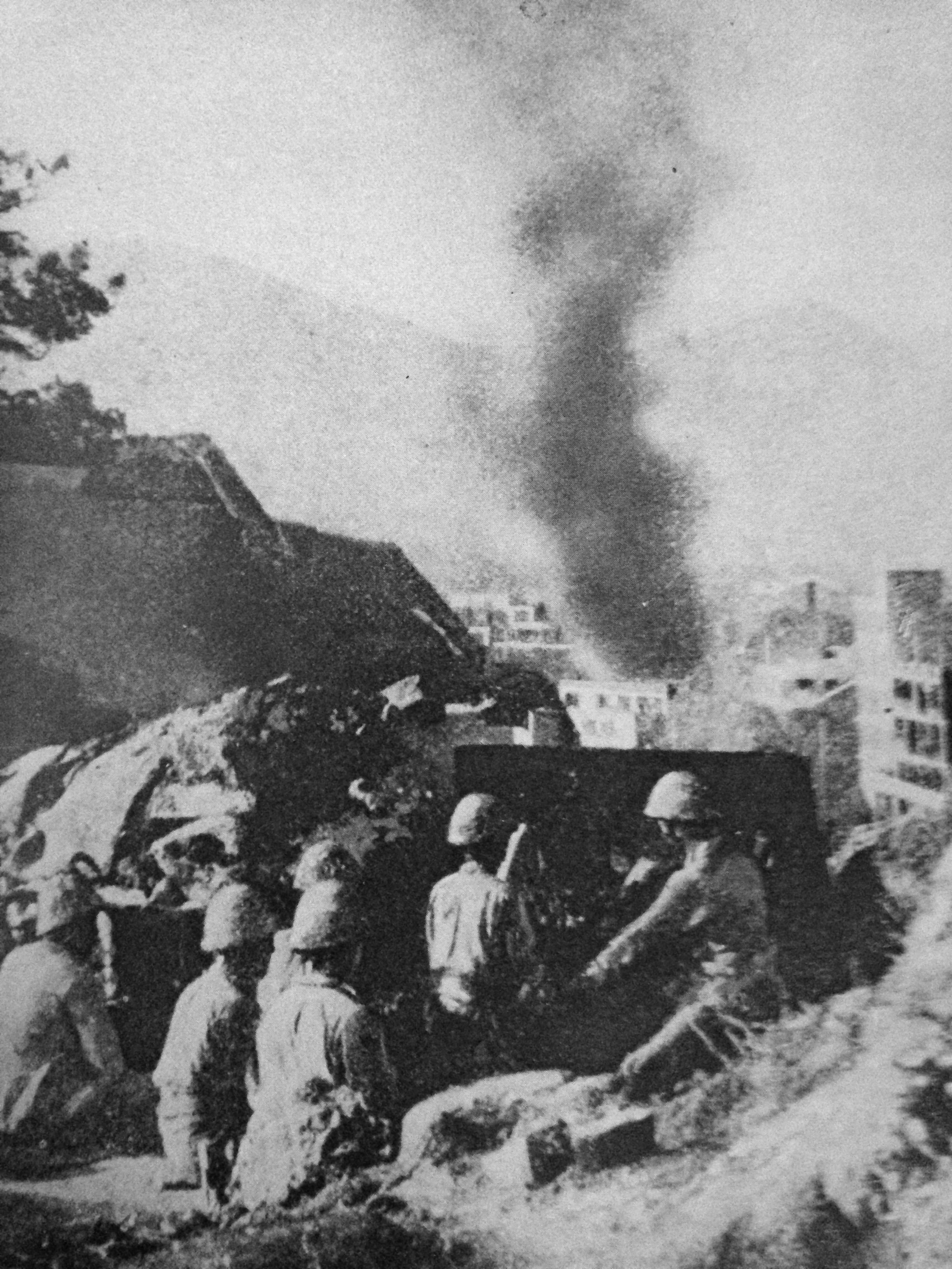 Japanese Artillery fires shells at the British colony of Hong Kong.